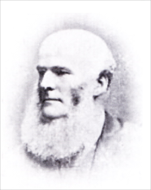 CH Mackintosh